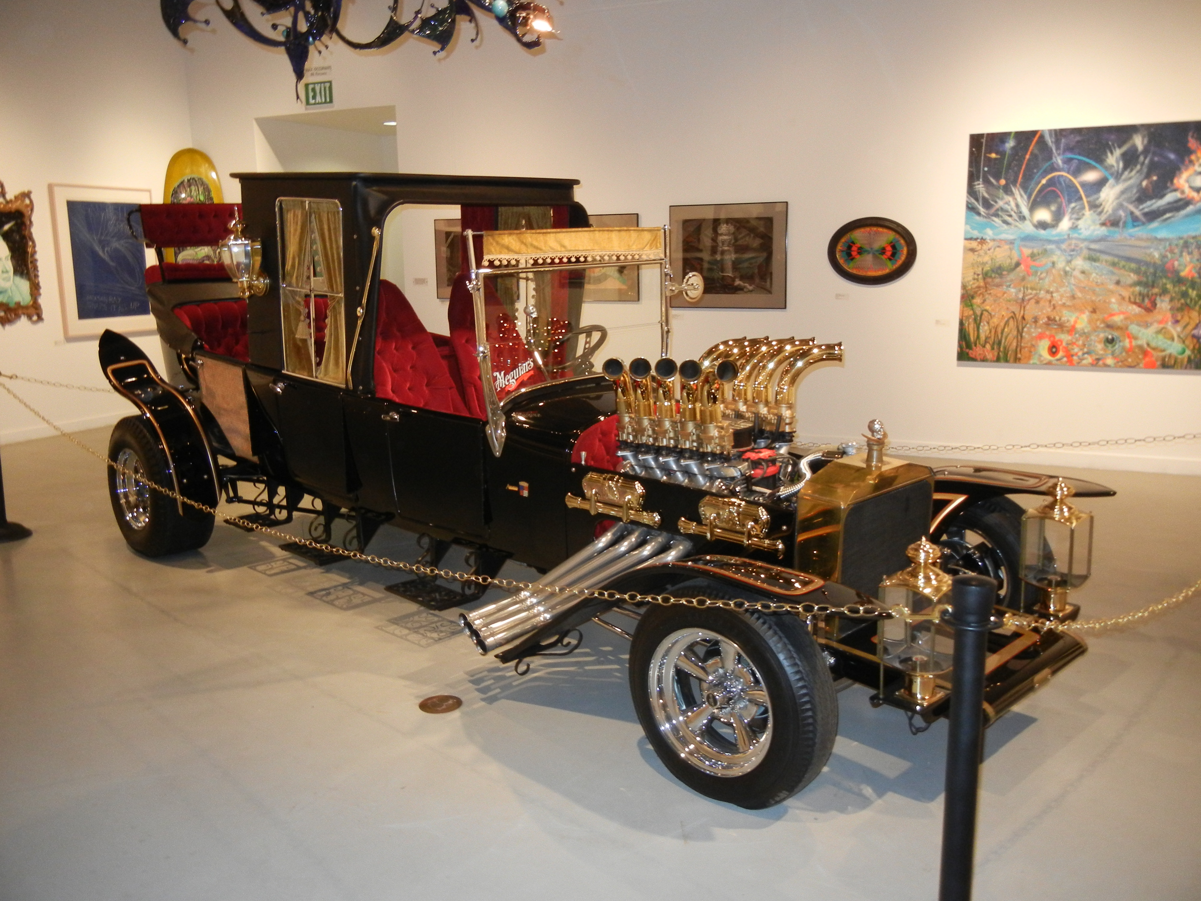 Munster Koach, taken at Huntington Beach Art Center